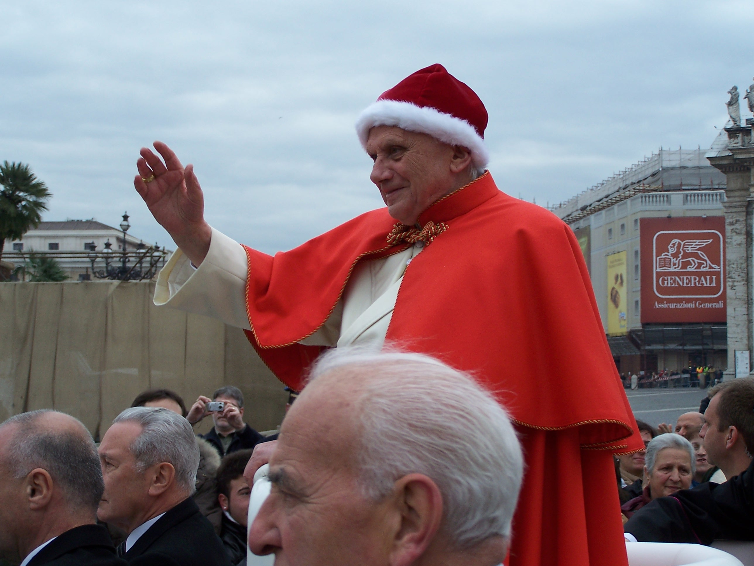 Pope Benedict XVI in Italy